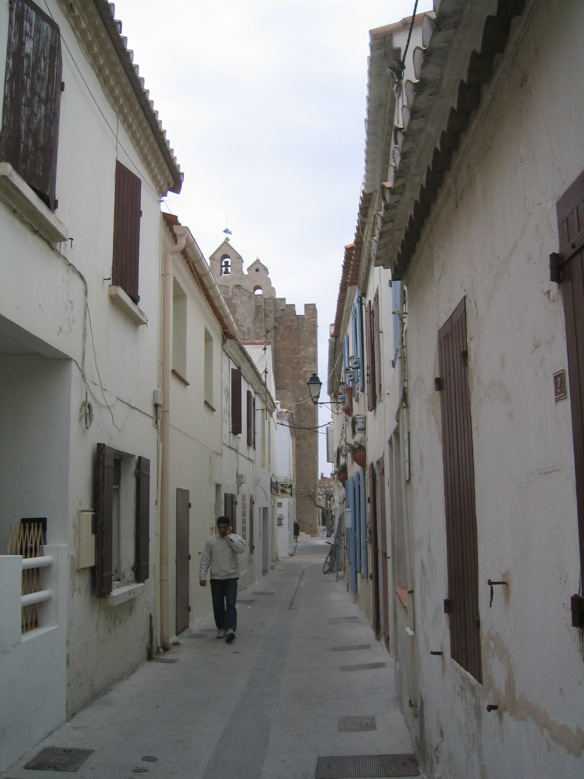 Narrow streets in Saintes-Maries-de-la-Mer, in the Camargue, France. The bell tower of the ancient church can be seen in the background. Photo taken by me 2005-03-23.